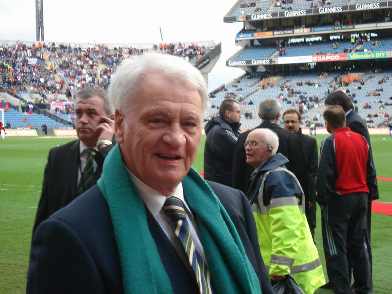 Wise Counsel. A Man of real Talent, Class and Dignity. Congrats on a fantastic job at the Republic of Ireland. In your debt.